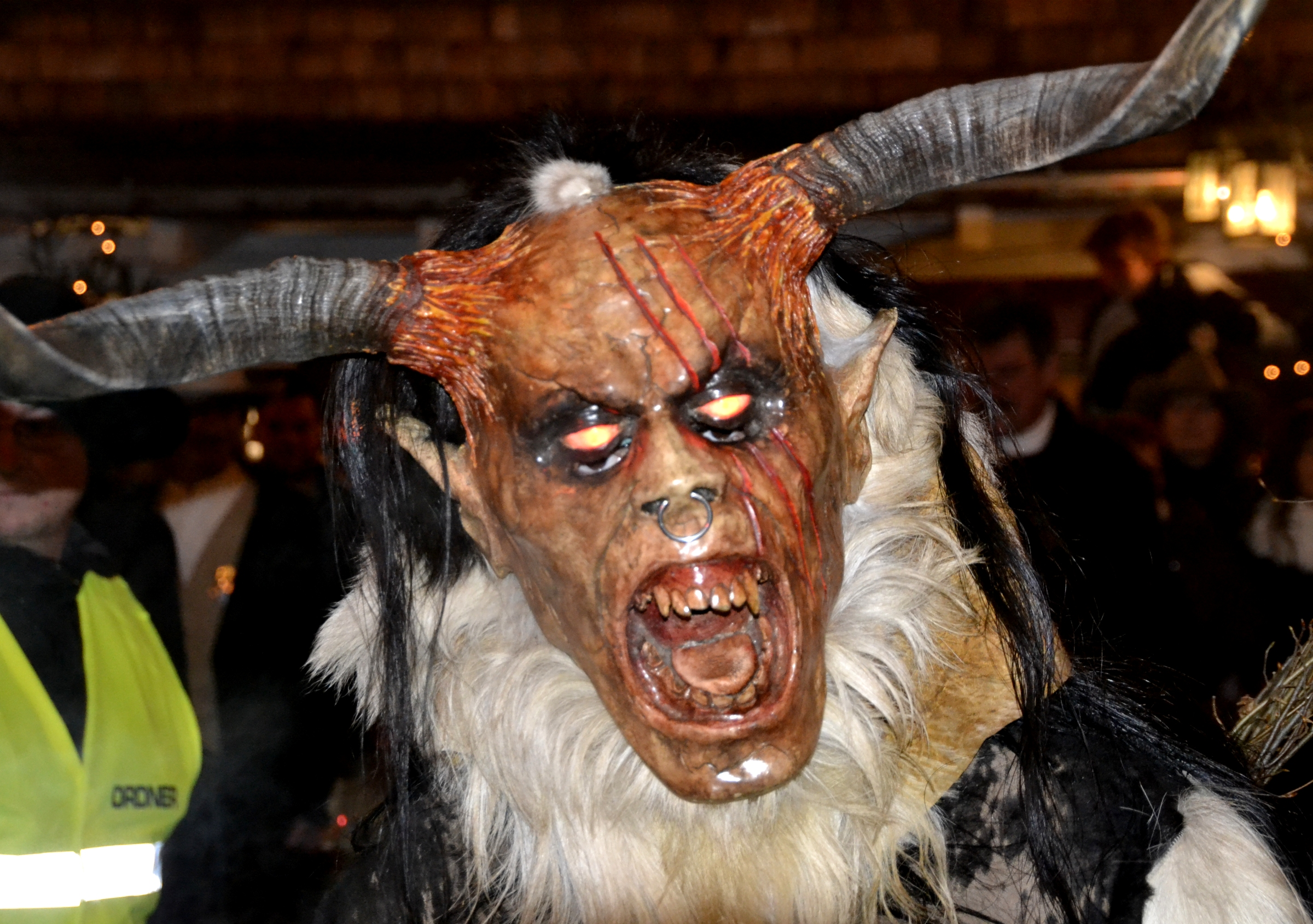 Perchta in Lower Bavaria in December 2013.